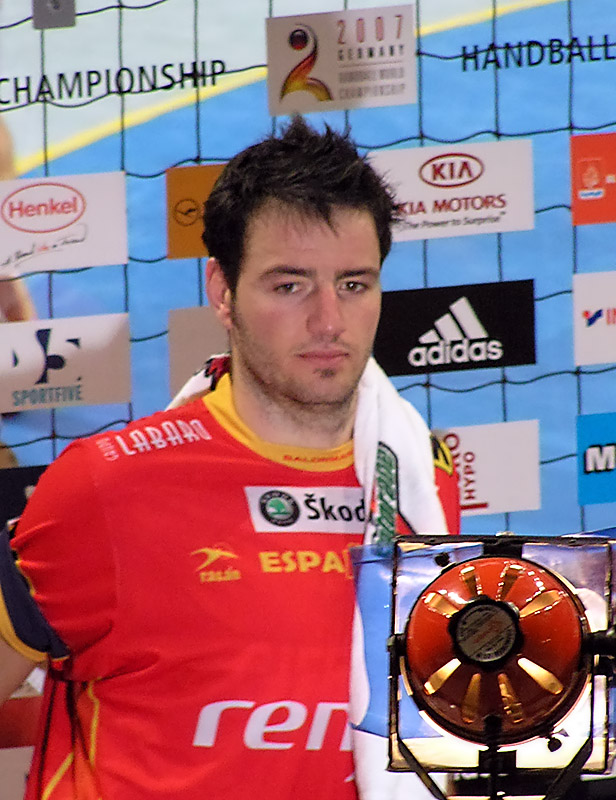 Iker Romero, on January 24th 2007 in Mannheim , SAP-Arena (Germany), after the Handball World Championchip game Spain - Russia 33:29 (17:15)